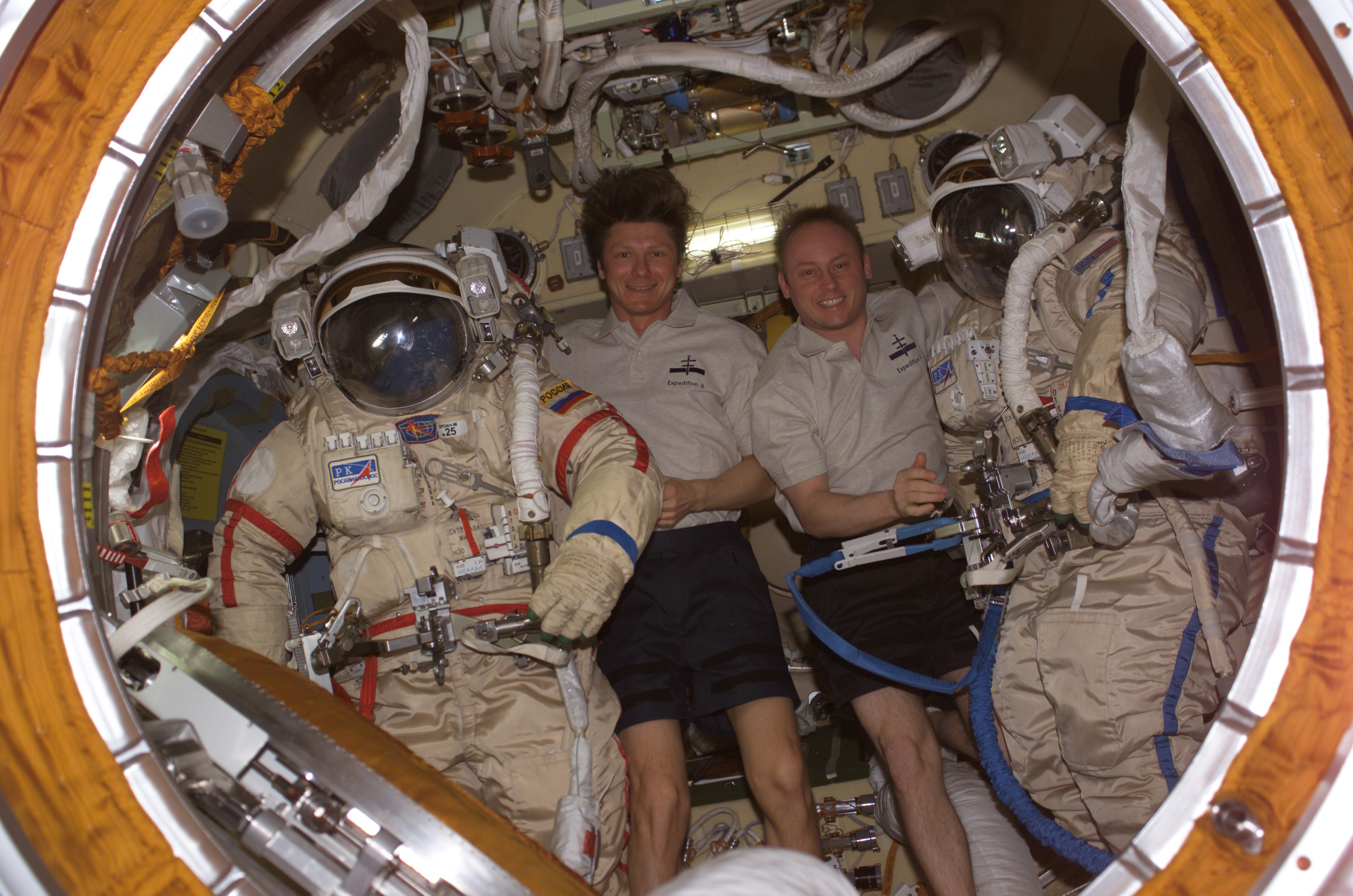 Expedition 9 inside Pirs. Cosmonaut Gennady I. Padalka (left), Expedition 9 commander representing Russia’s Federal Space Agency, and astronaut Edward M. (Mike) Fincke, NASA ISS science officer and flight engineer, pose with their Russian Orlan spacesuits in the Pirs Docking Compartment of the International Space Station (ISS).